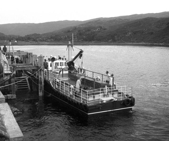 Toscaig: Ferry for Kyle of Lochalsh This shows the small passenger ferry 'Puffin' at Toscaig pier awaiting departure time for the Kyle of Lochalsh, only about eight miles away by sea, but about fifty by road. Water transport used vital in this part of Scotland but with road improvements over the last couple of decades, this and other ferries have since been discontinued.